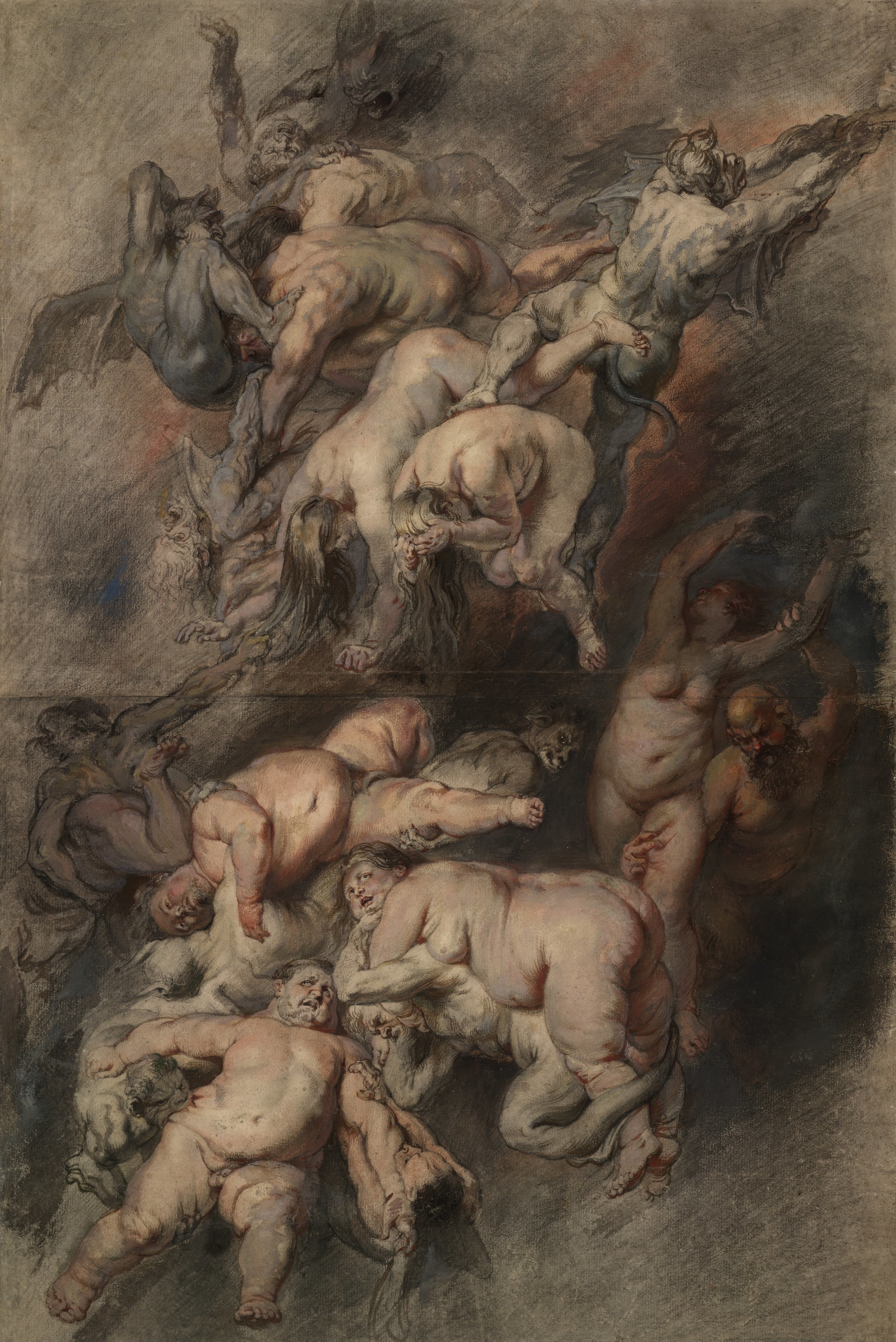 Study for the Fall of the Damned; sheet of studies for two groups, in the upper half, men and women pulled down by demons, the lower half represents the group immediately to the left of the former group in the painting, with two pot-bellied men and a fat woman borne down by demons. c.1614-18 Black and red chalk, watercolour and bodycolour, on two sheets